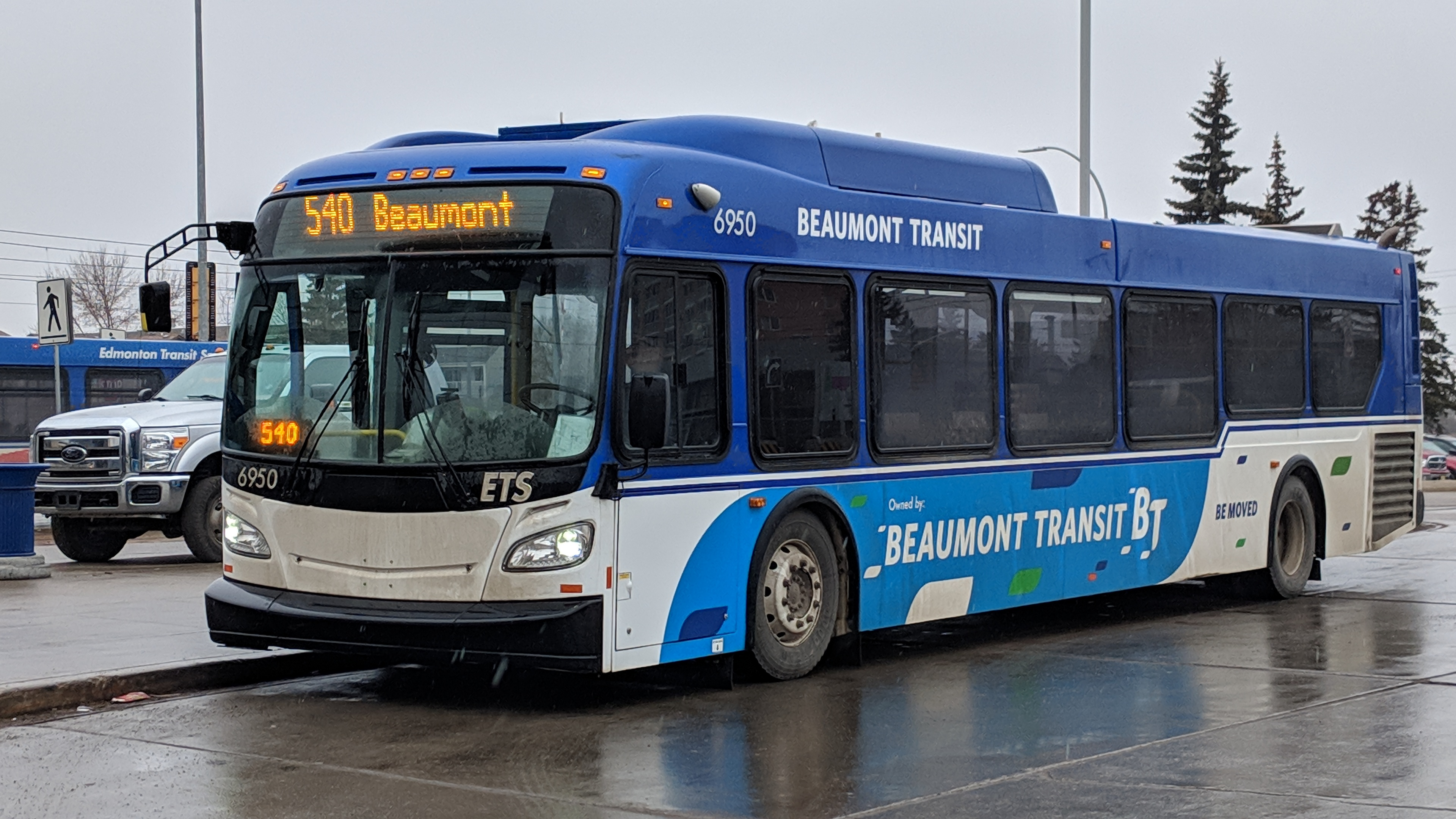 Beaumont Transit bus 6950 (a New Flyer XD40) on route 540 with destination "Beaumont", at the Century Park Transit Centre in Edmonton. Taken during rain on a Tuesday afternoon in March 2019. While owned by Beaumont Transit, the bus is operated by Edmonton Transit. Note the ETS logo under the driver's side windshield. Unlike other XD40s operated by Edmonton Transit, 6950 does not have a bike rack on the front and the windows do not open.